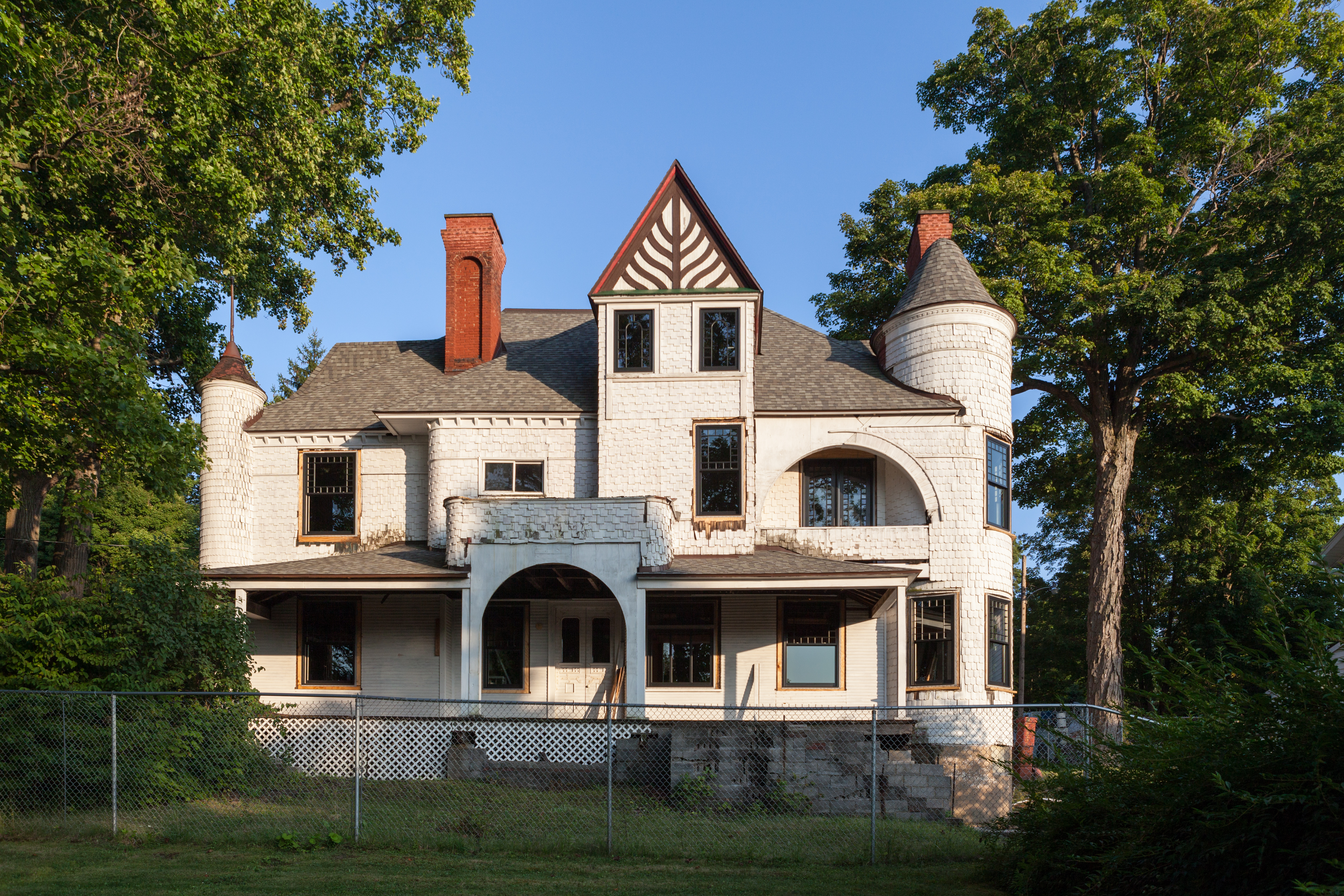 Benjamin F. Jones Cottage, front, facing 3rd St.